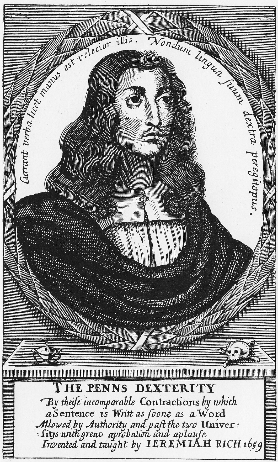 Jeremiah Rich, stenographer. Engraved by Thomas Cross.